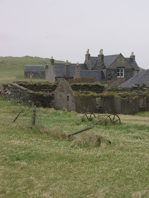 Taigh Easaigh/Ensay House, Ensay/Easaigh, Outer Hebrides, Scotland.